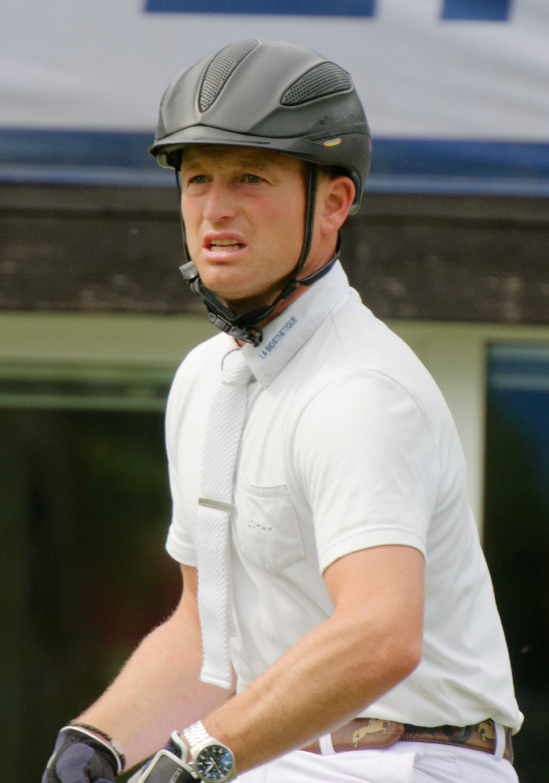 Internationales Pfingstturnier Wiesbaden 2014 The making of this document was supported by the Community-Budget of Wikimedia Germany.